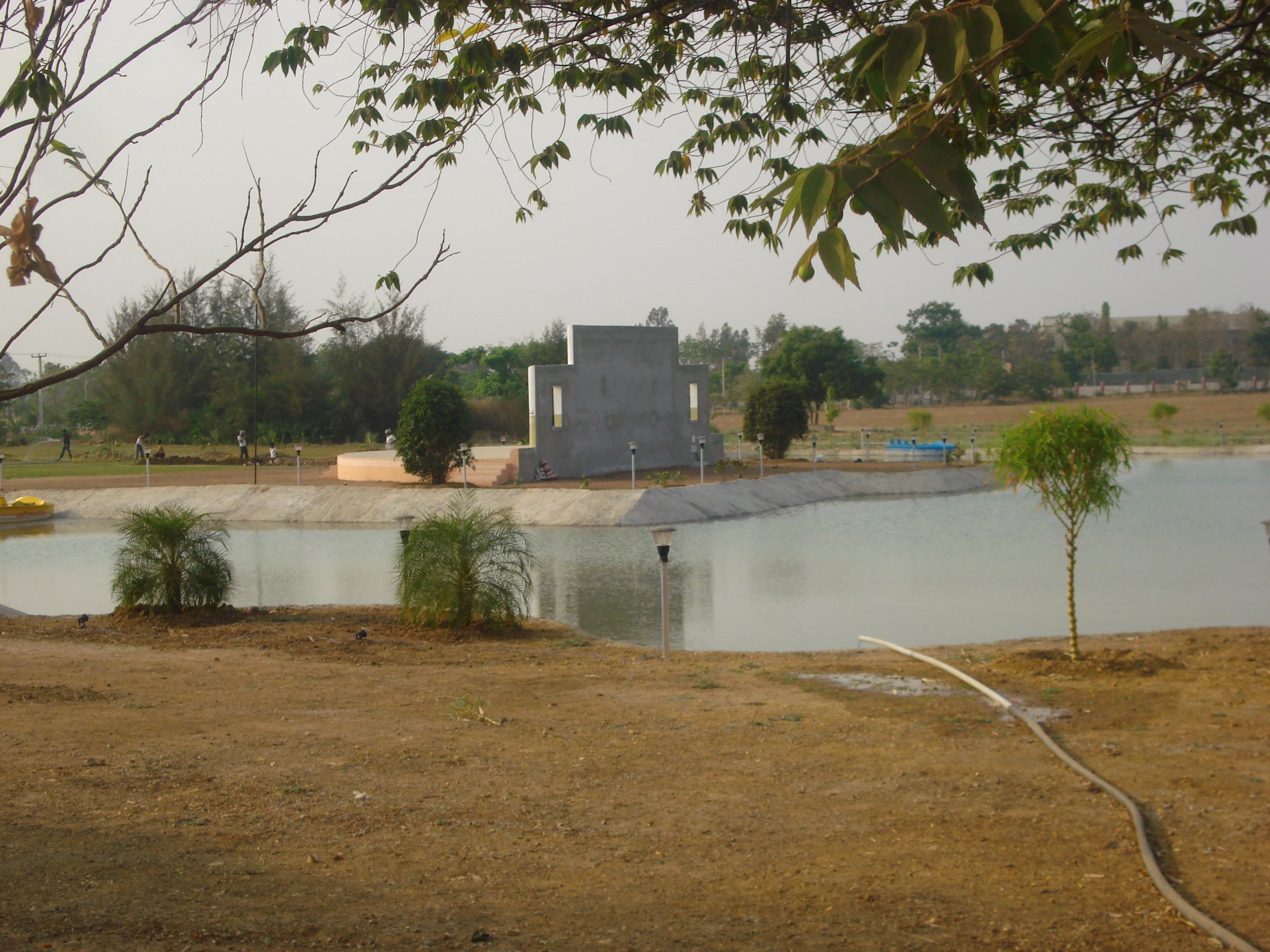 its a artificial lake at bvrit